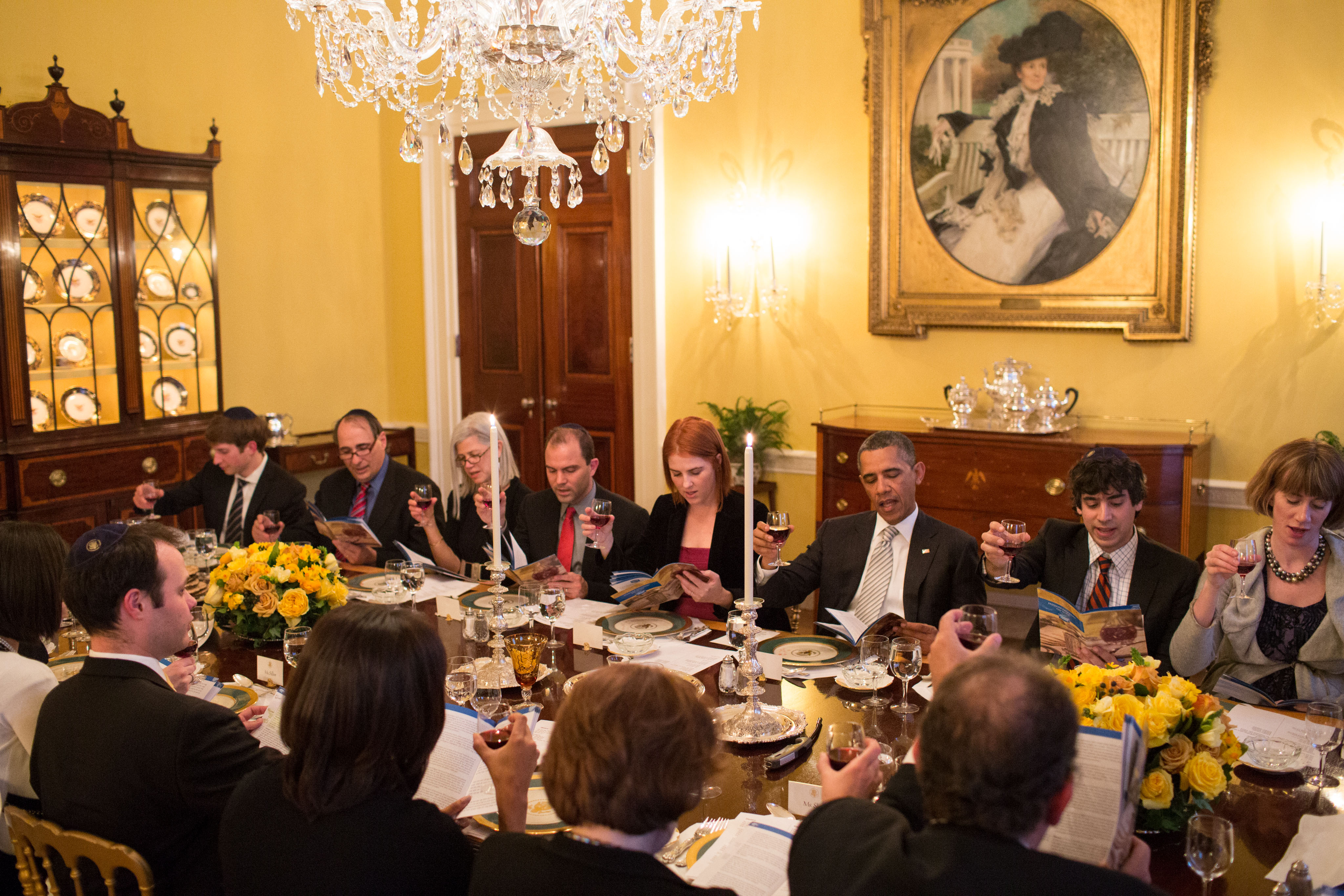 United States President Barack Obama and First Lady Michelle Obama host a Passover Seder Dinner for family, staff and friends, in the Old Family Dining Room of the White House on 25 March 2013.